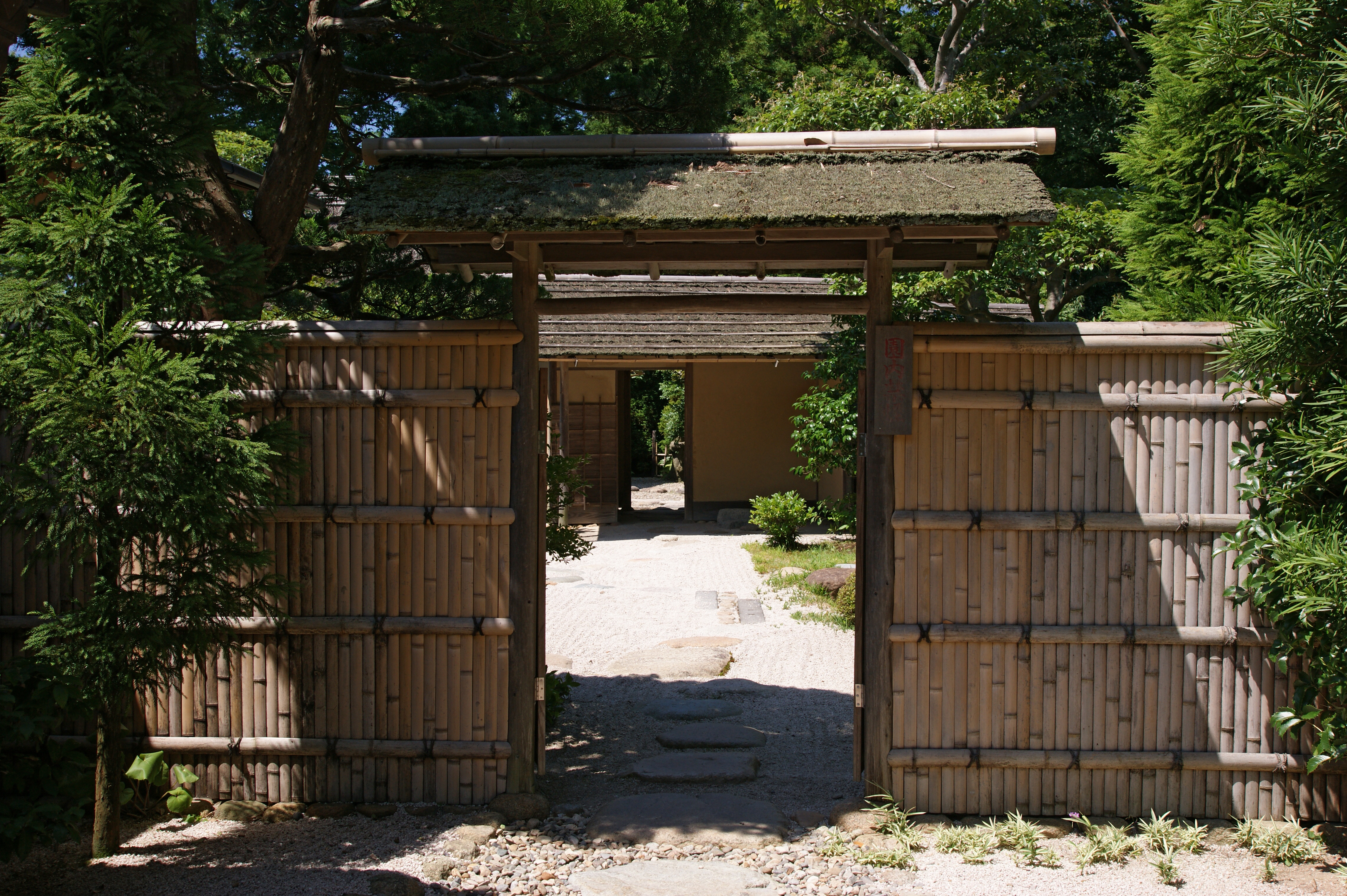 Meimeian in Matsue, Shimane prefecture, Japan